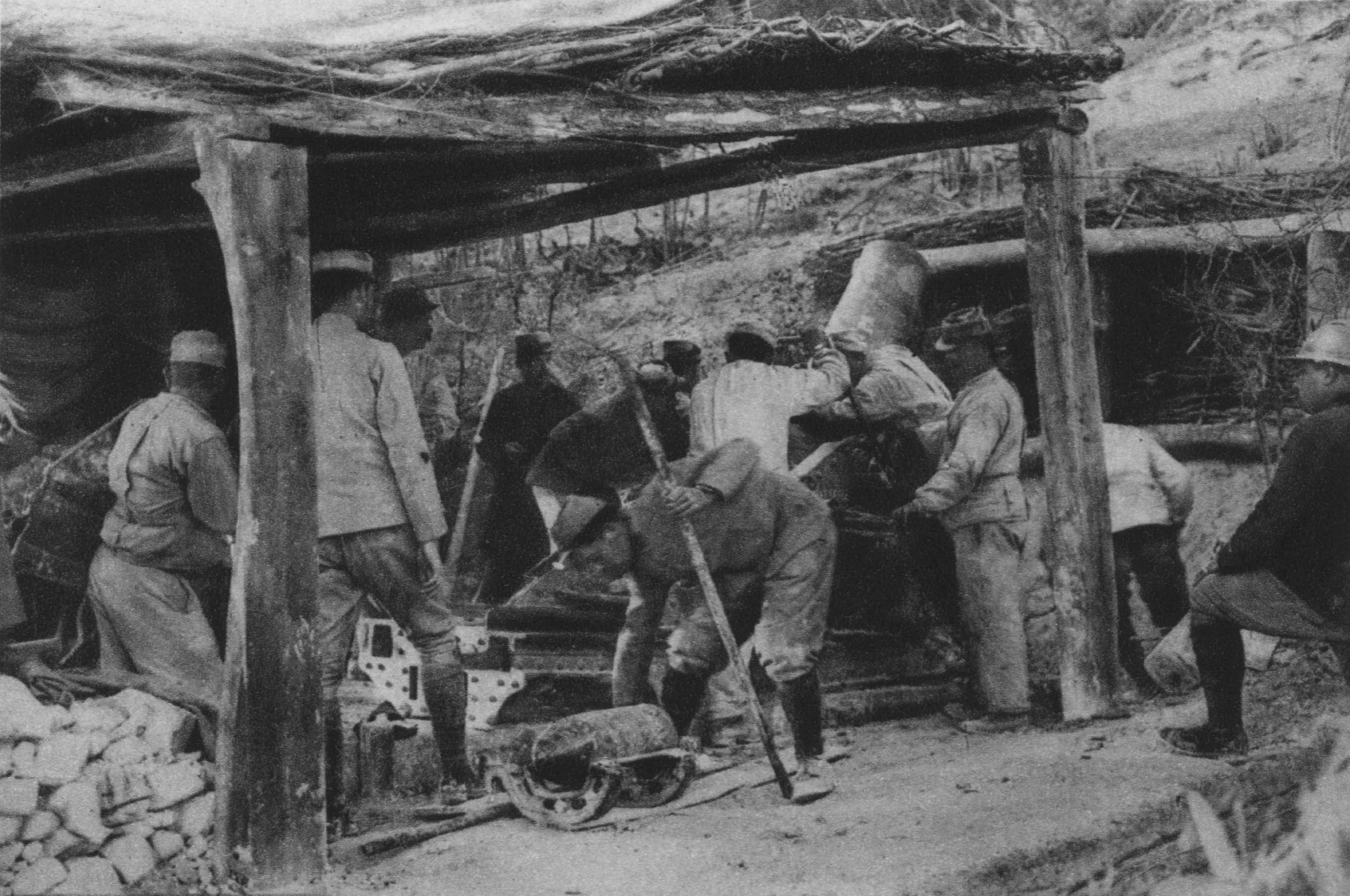 French mortar position in the Battle of Champagne (September 26th, 1915).